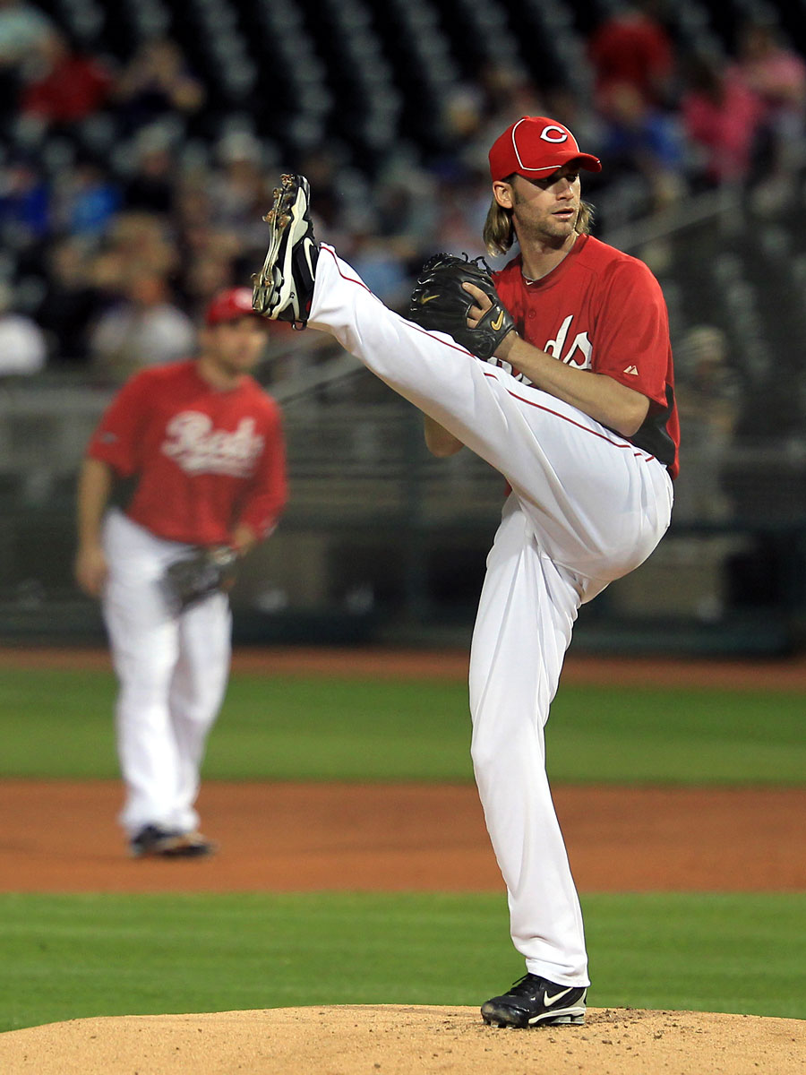 Bronson Arroyo, March 16, 2011. Spring training, Goodyear, Arizona. 17:57, 3 April 2011 . . BubbaFan . . 900×1,200 (159 KB)